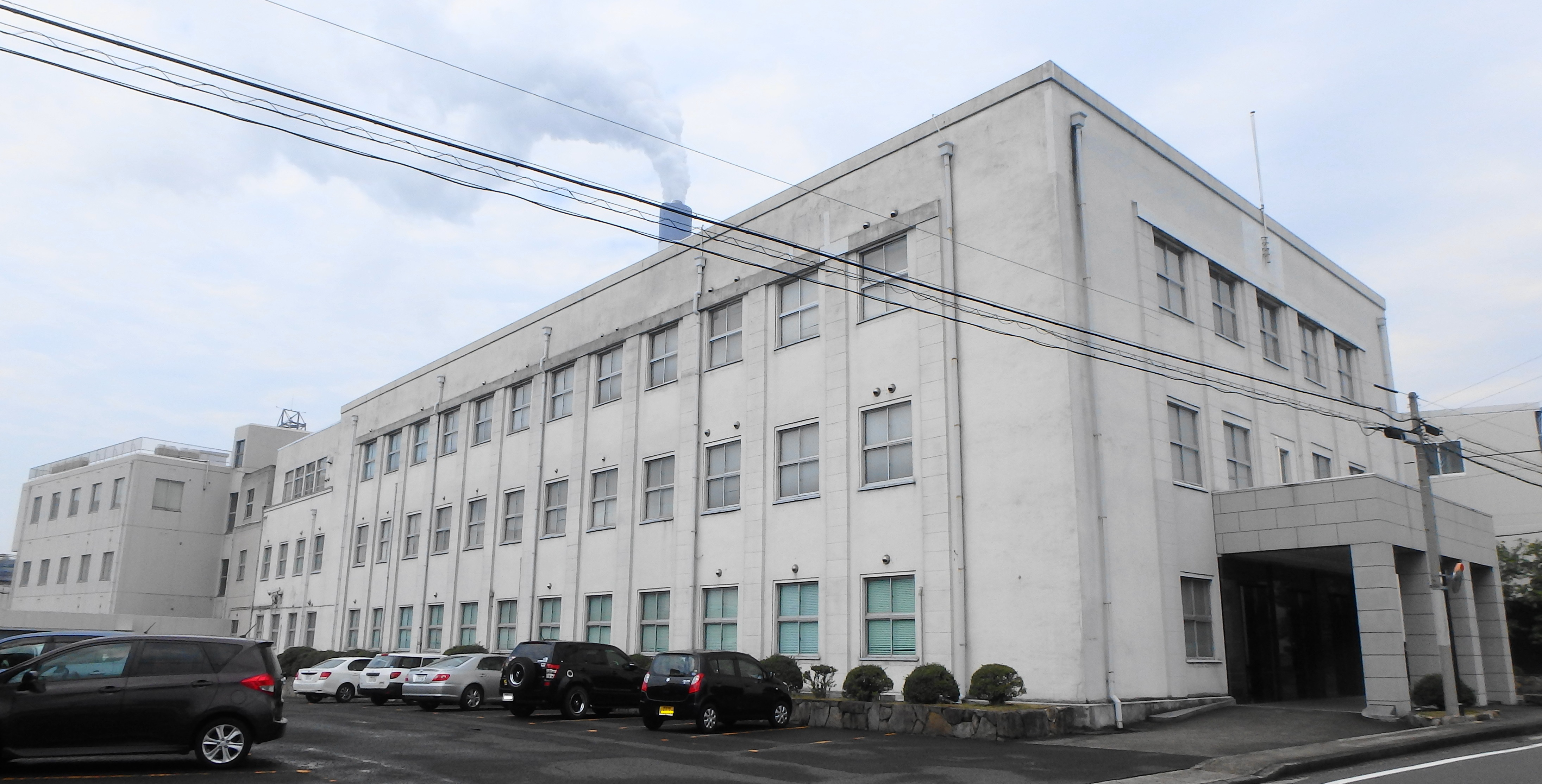 Headquarters of Daio Paper Corporation,Ehime prefecture,Japan